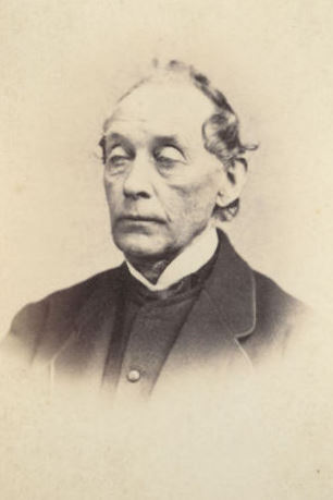 Stephen Haynes, New York state senate, Alderman Brooklyn 3rd and 4th districts, 1867